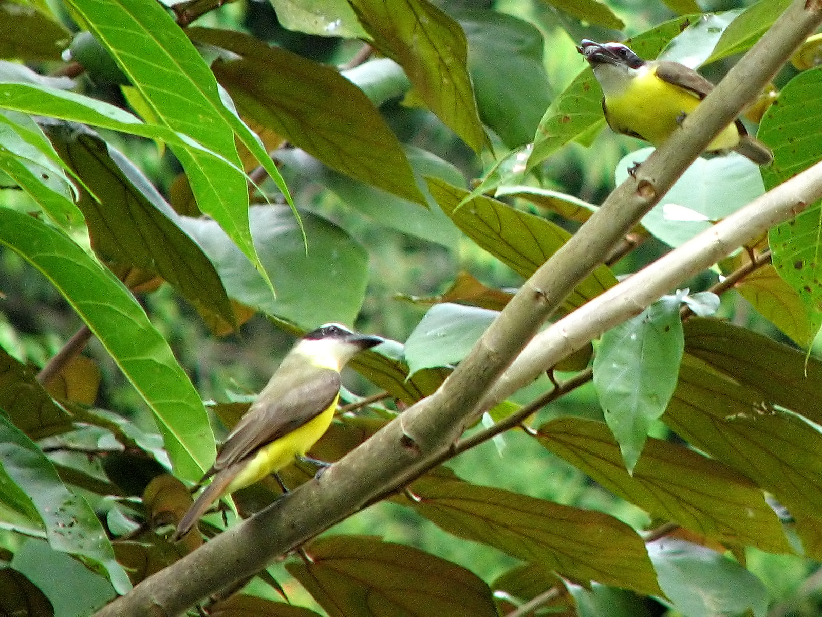 Boat-billed Flycatchers (Megarynchus pitangua) taken in Manuel Antonio National Park, Costa Rica